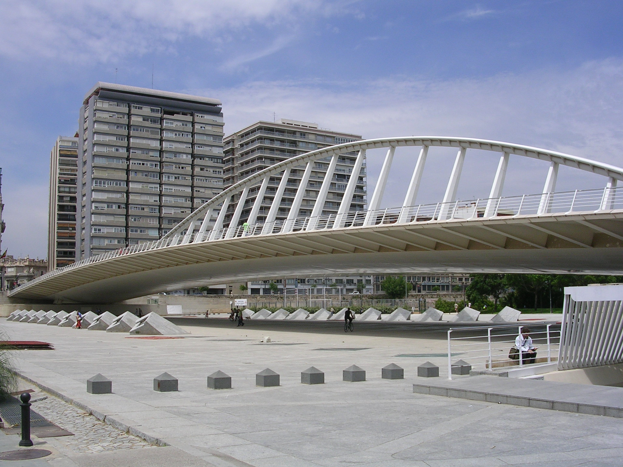 Exhibition Bridge, Valencia, Spain. Designed by Santiago Calatrava.